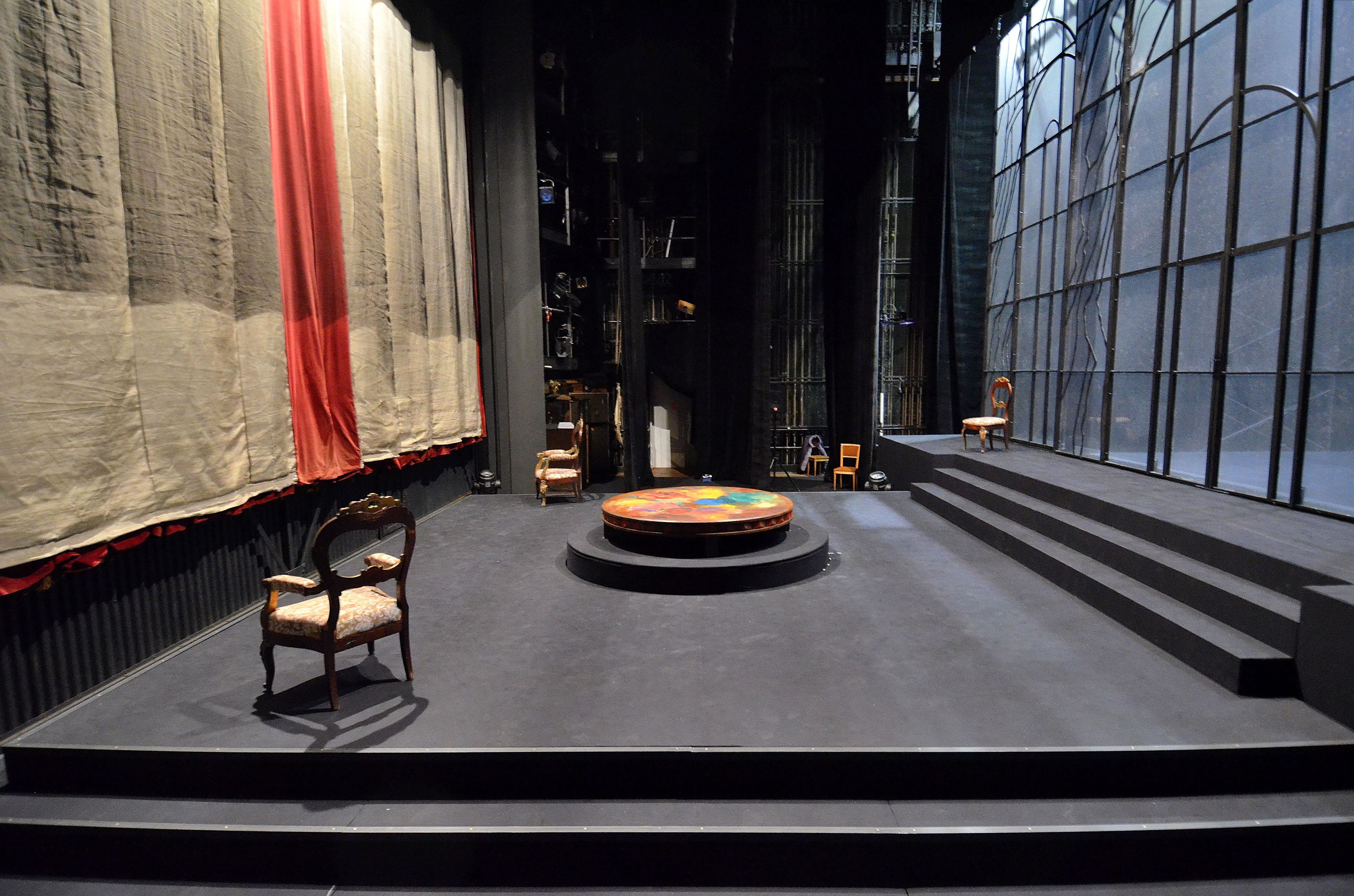 Stage at the Arnold Szyfman Polish Theatre in Warsaw